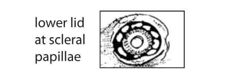 Standard Event System character depiction